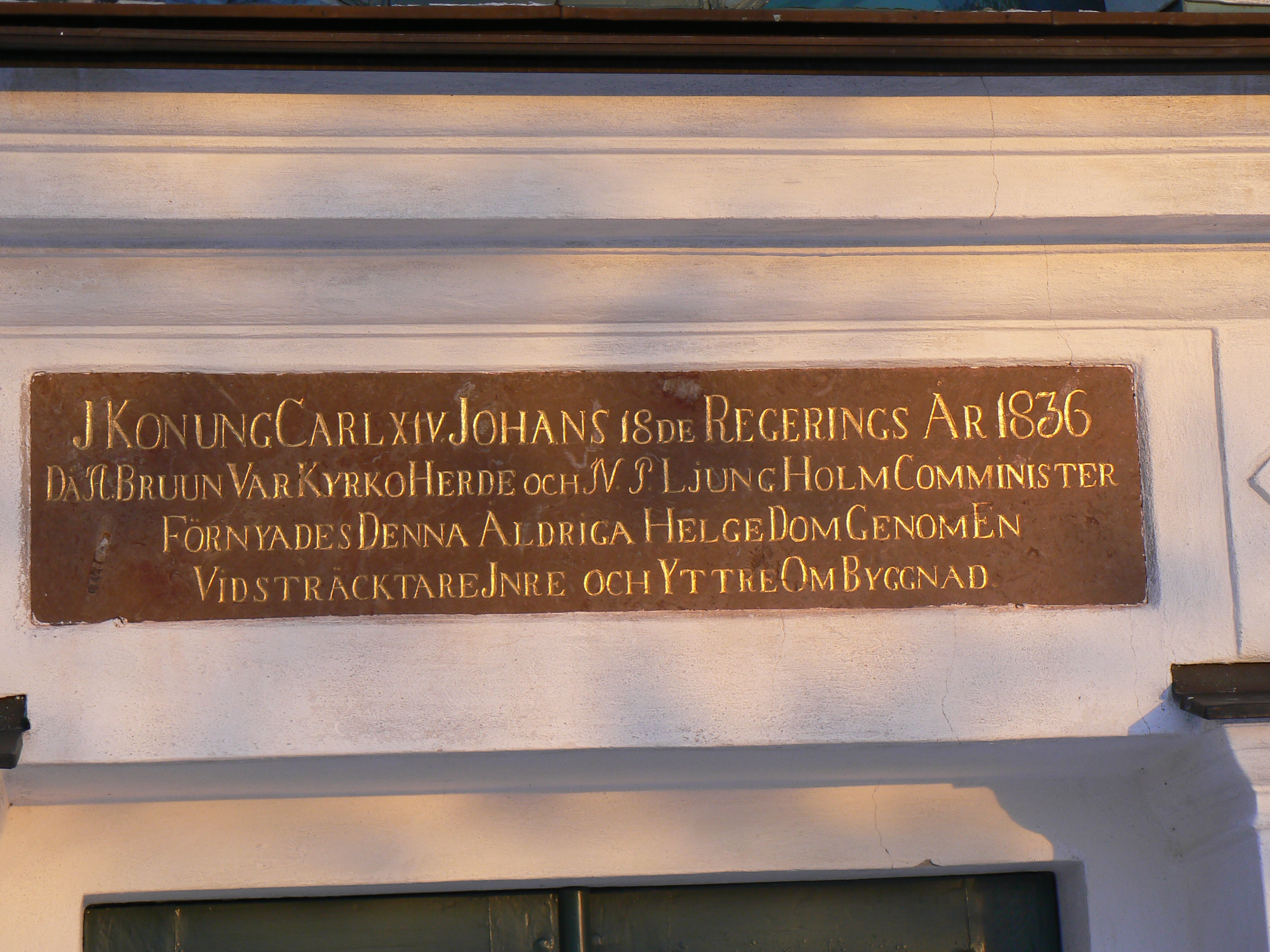 Inskription ovanför Flistads kyrkas entrédörr. Inscription above the entrence of Flistad church in Östergötland, Sweden. Photo by Skvattram 2007-01-27.